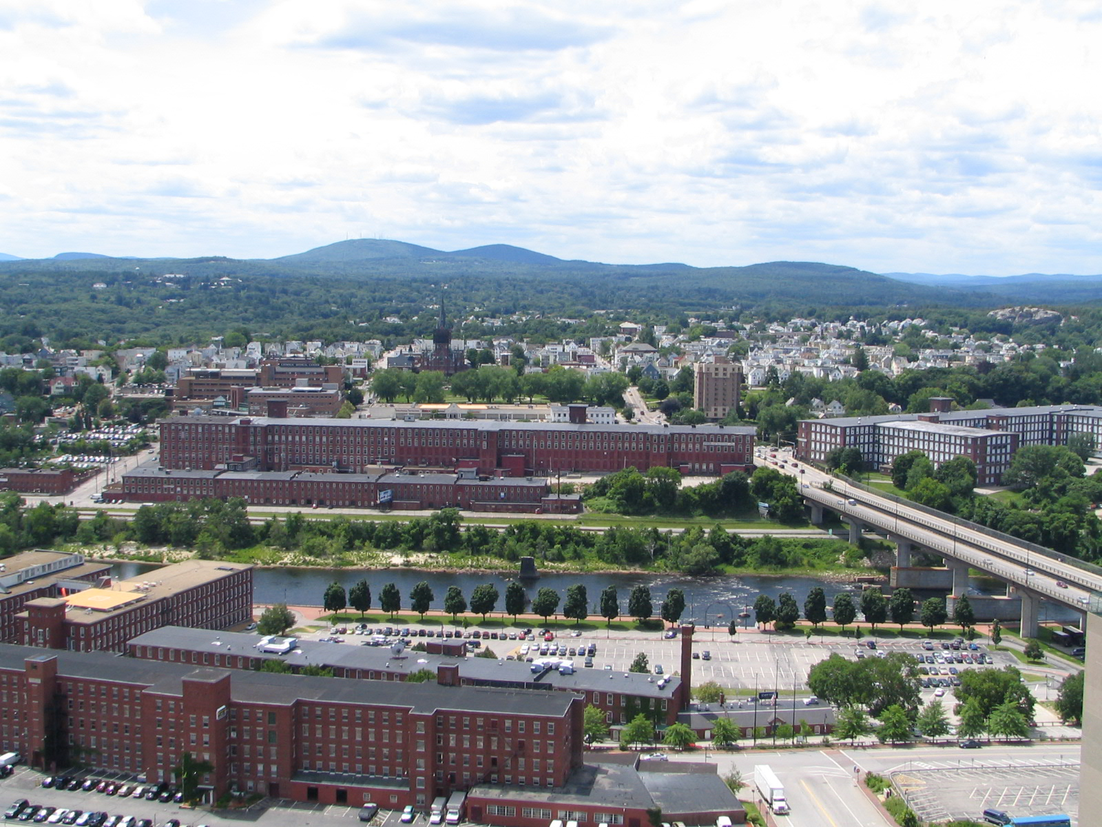 Manchester, New Hampshire. This was taken from the top of the 1000 Elm tower.